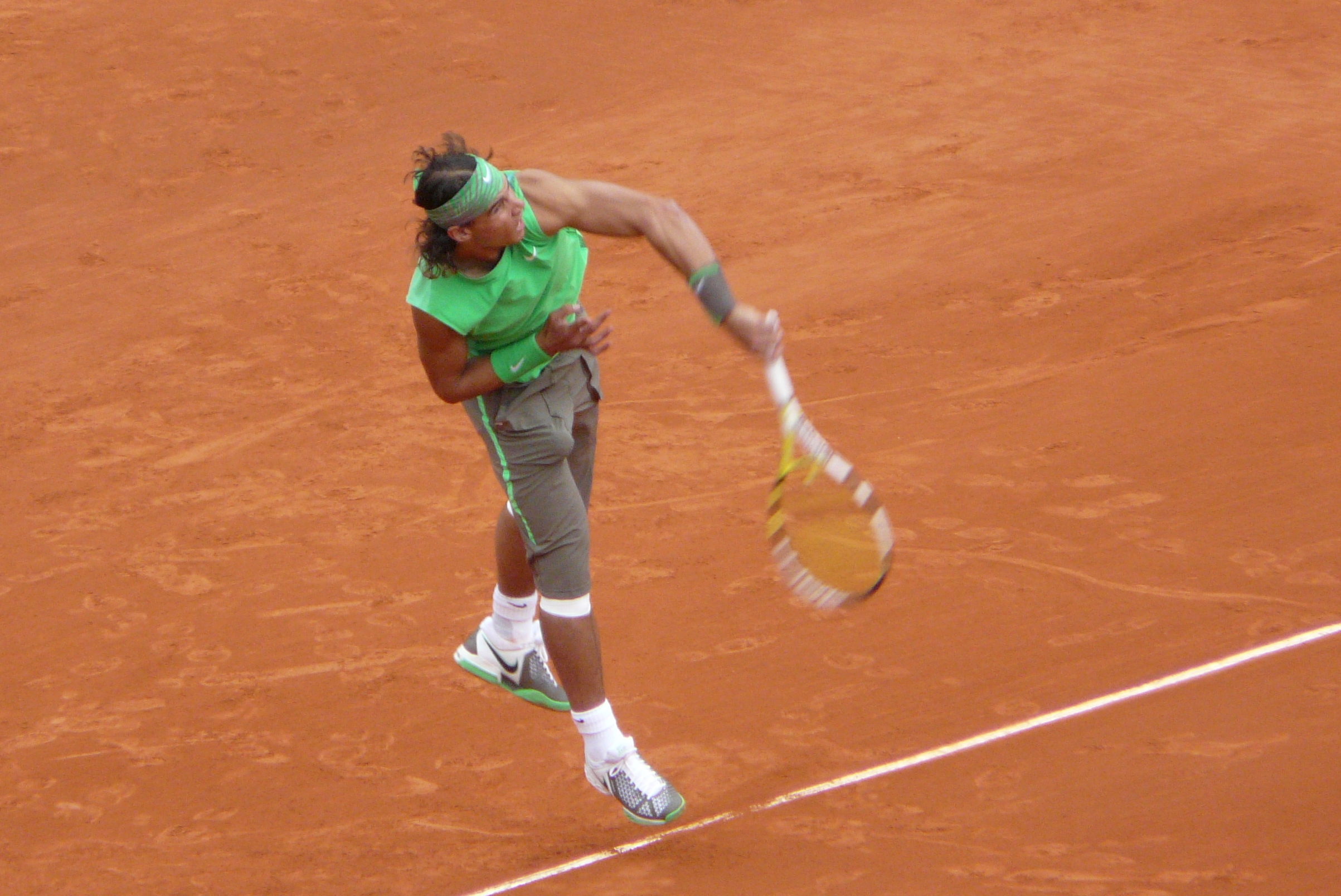 Rafael Nadal against Nicolás Almagro in the 2008 French Open quarterfinals